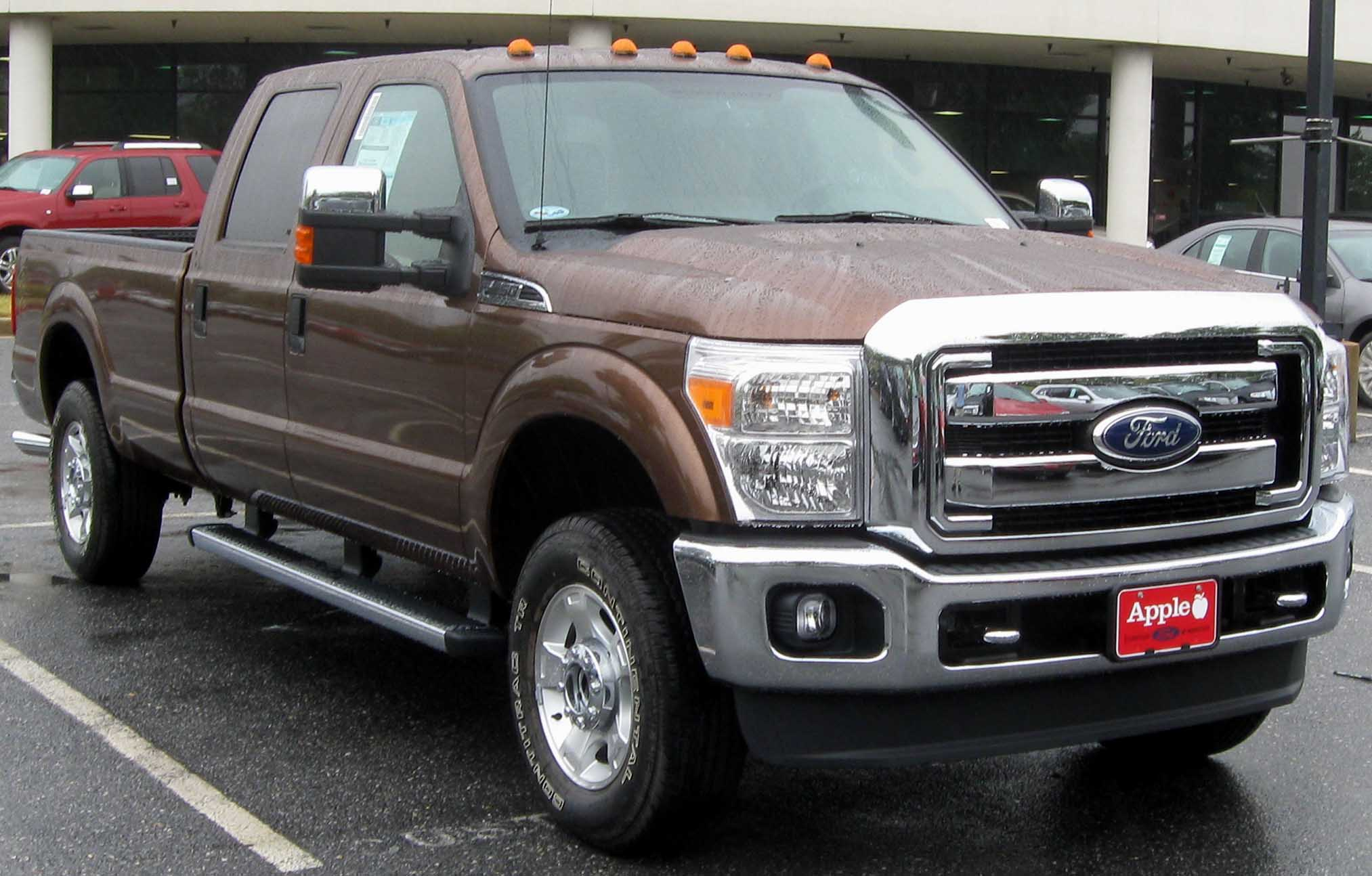 2011 Ford F-250 photographed in Columbia, Maryland, U.S.